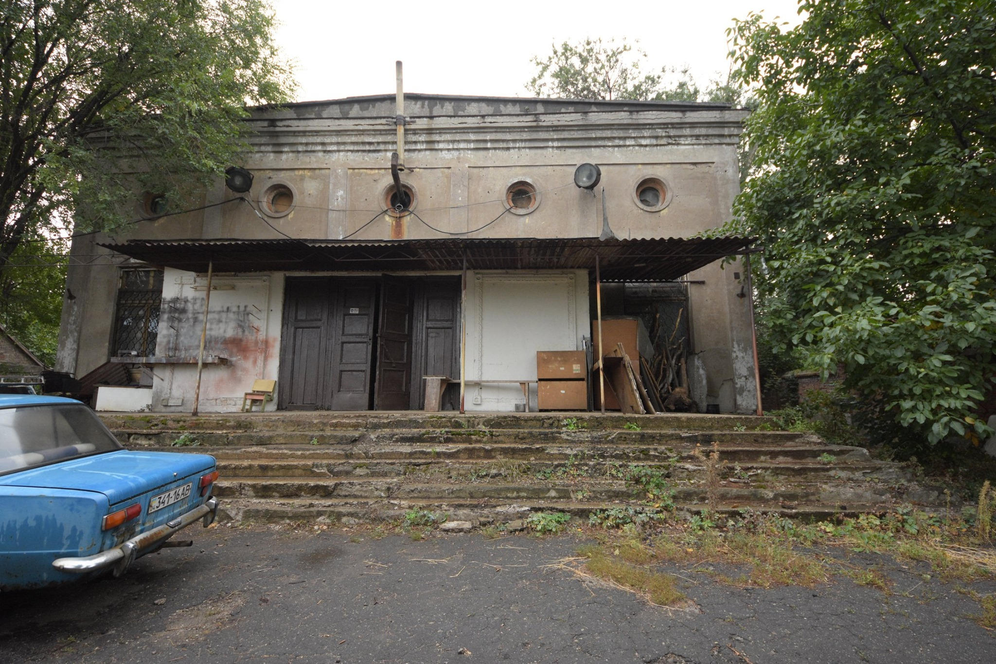 Зображення фасаду художнього комбінату "Іскра" у районі Шляхівка (Дніпро). Автор зображення: О. Волок